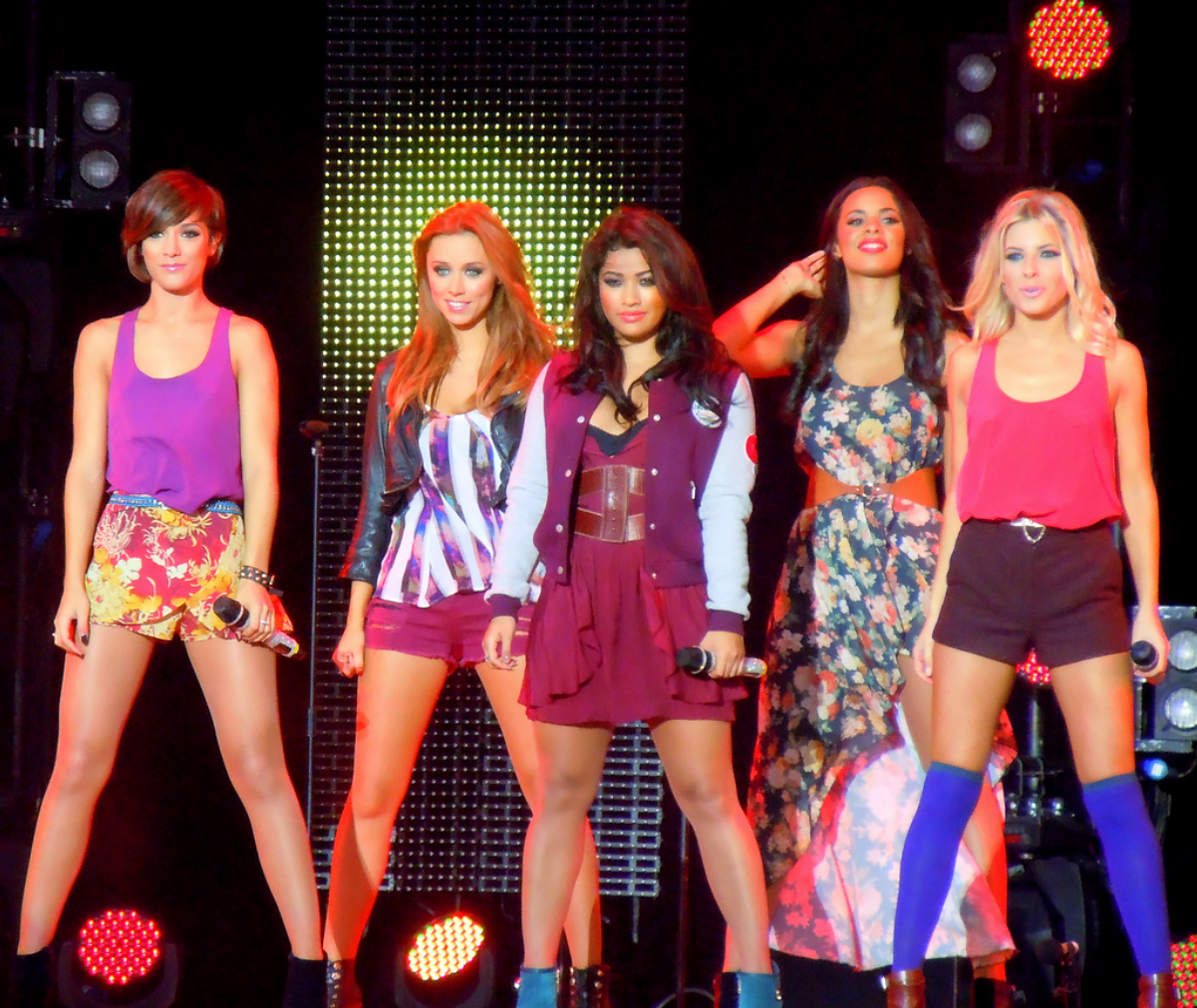 The Saturdays L-R: Frankie Bridge, Una Foden, Vanessa White, Rochelle Humes, Mollie King